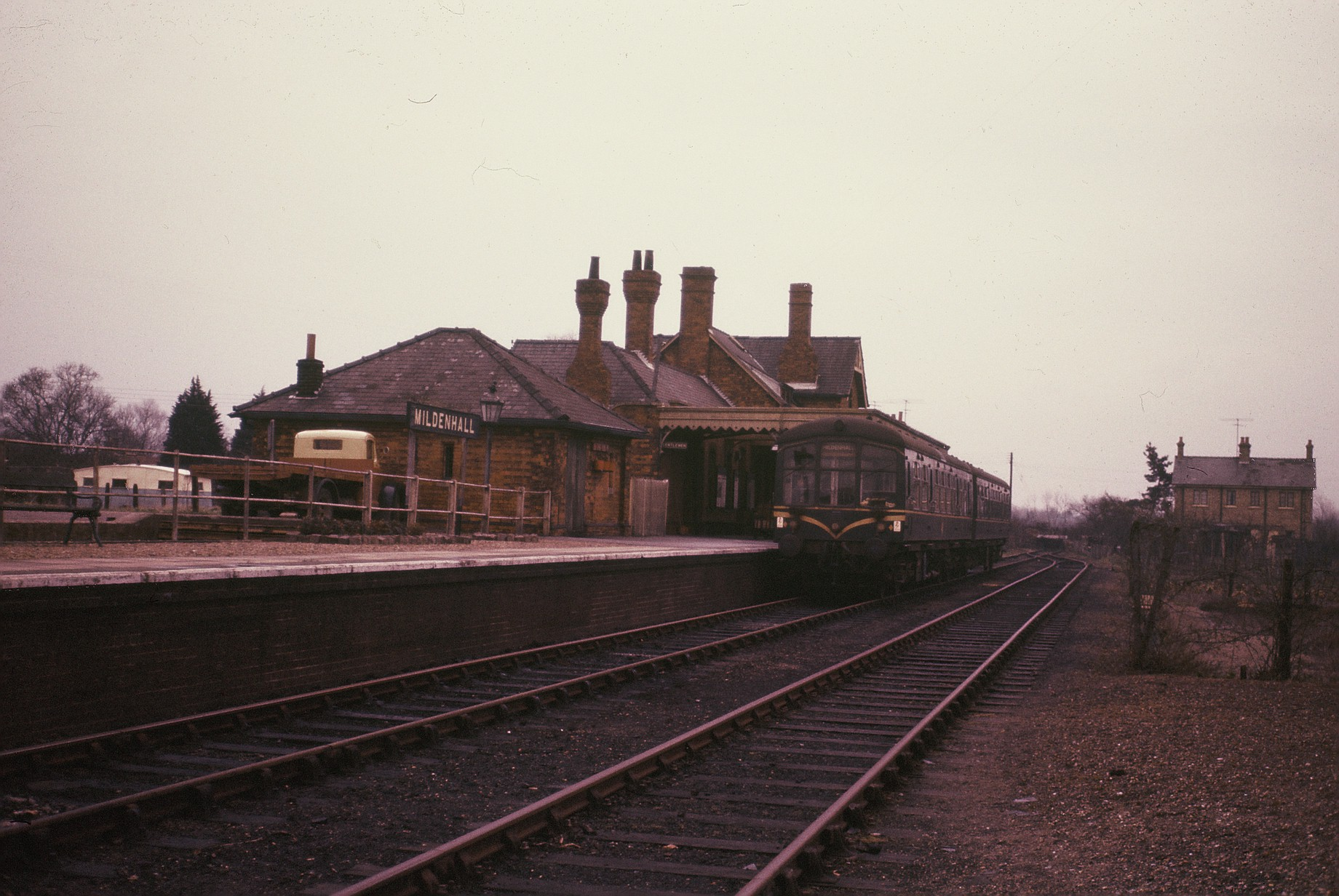 DMU at Mildenhall railway station at 07:25.